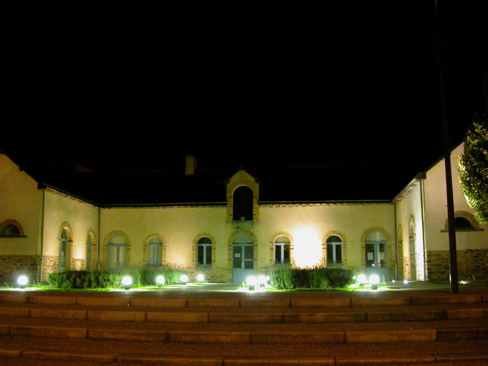 Town hall of Thorigné-Fouillard